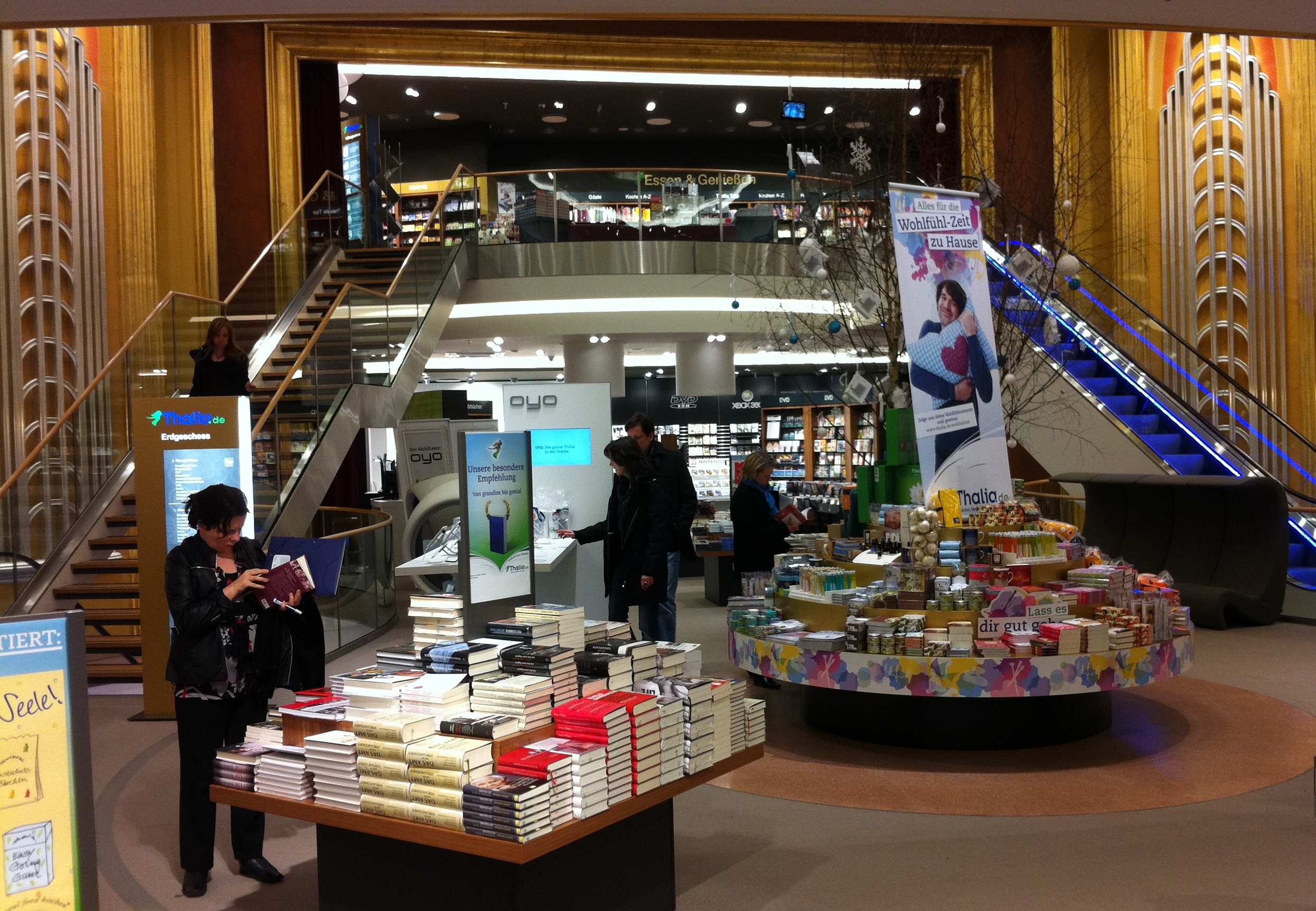 Germany, Bonn: former Cinema -now bookshop- "Metropol" at market place.